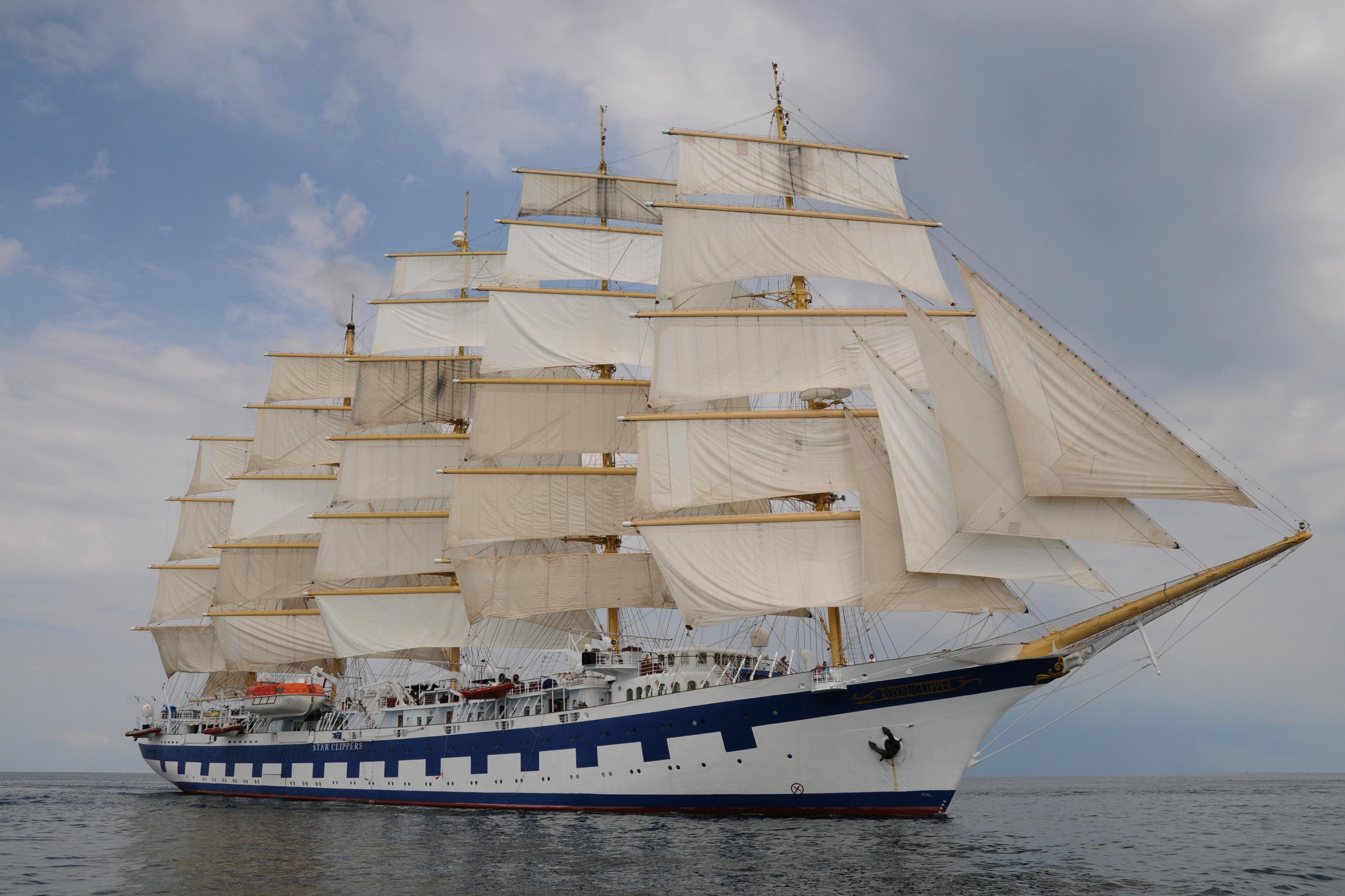 five masted fully rigged tall ship "Royal Clipper"